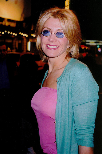 Natasha Richardson